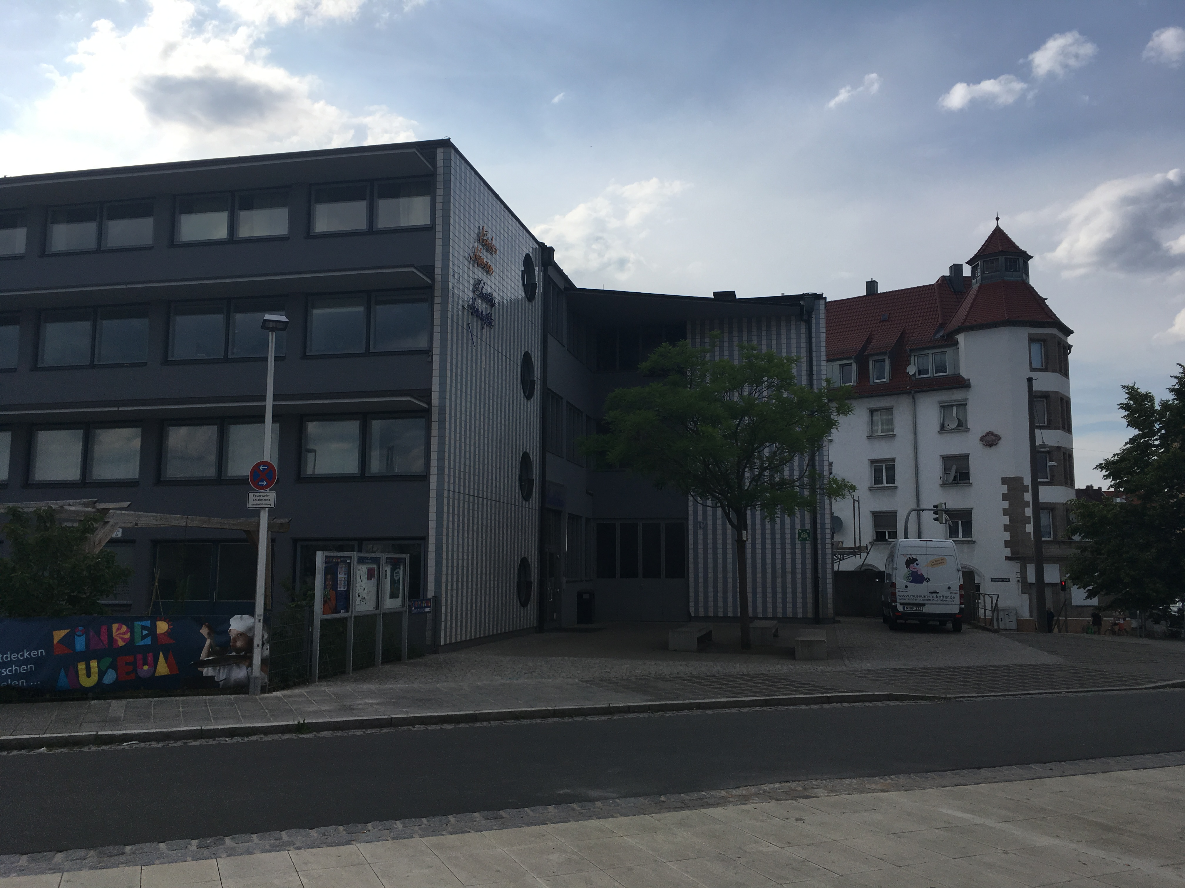 Kindermuseum in Nuremberg